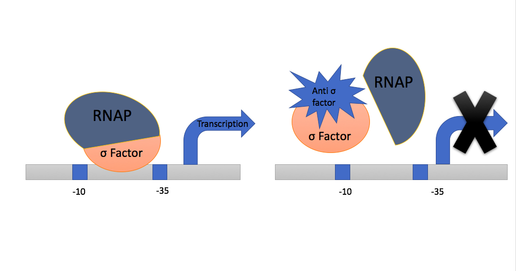 Anti-sigma Factor binds to Sigma Factor and inhibits its activity.